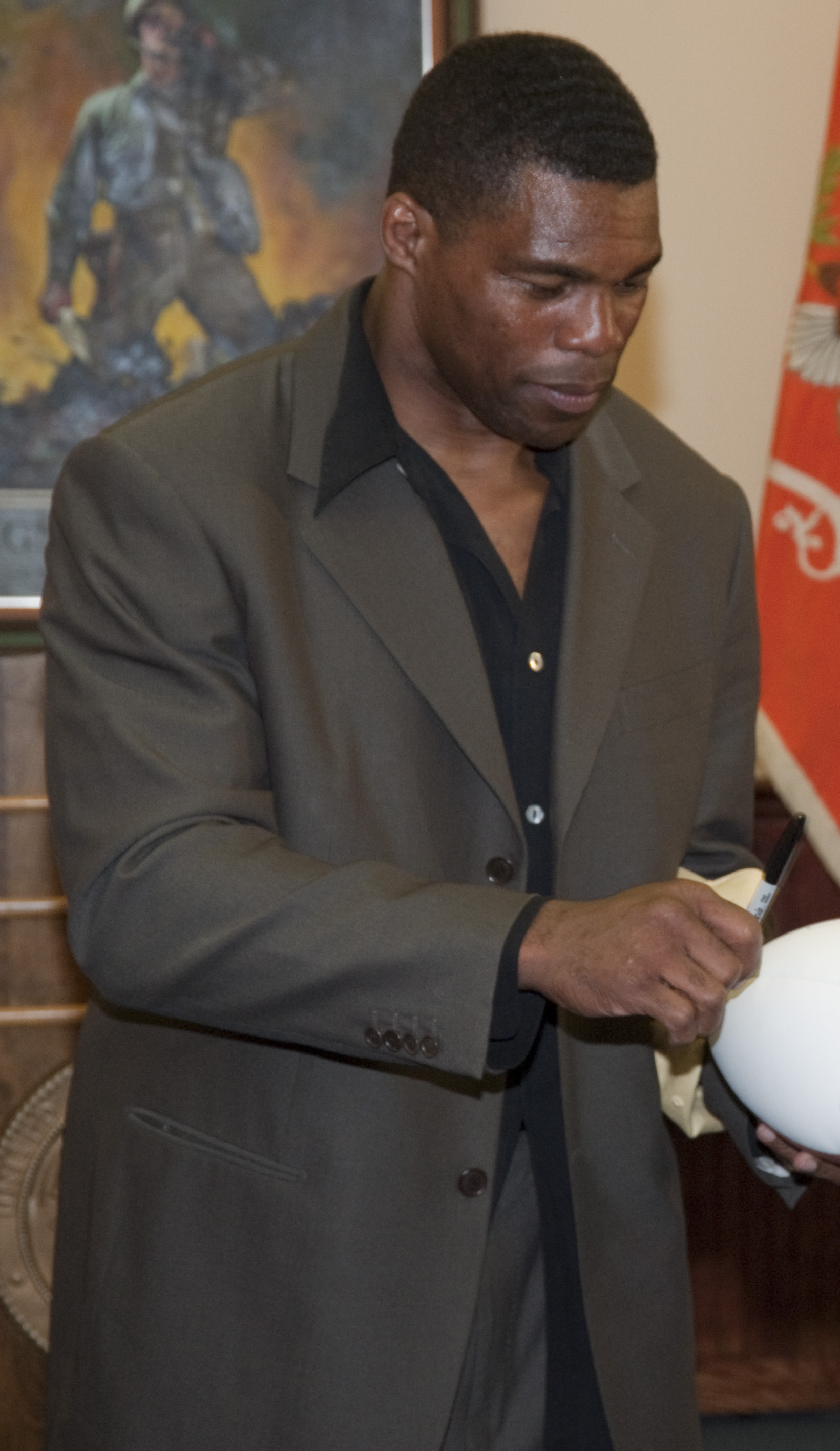 Heisman Trophy Winner Herschel Walker, left, signs a football at Alexander Hall, in Fort Gordon, Ga., May 14, 2010. Walker visited Fort Gordon, to speak to U.S. Soldiers and the public about his new book, Breaking Free, My Life with Dissociative Identity Disorder..